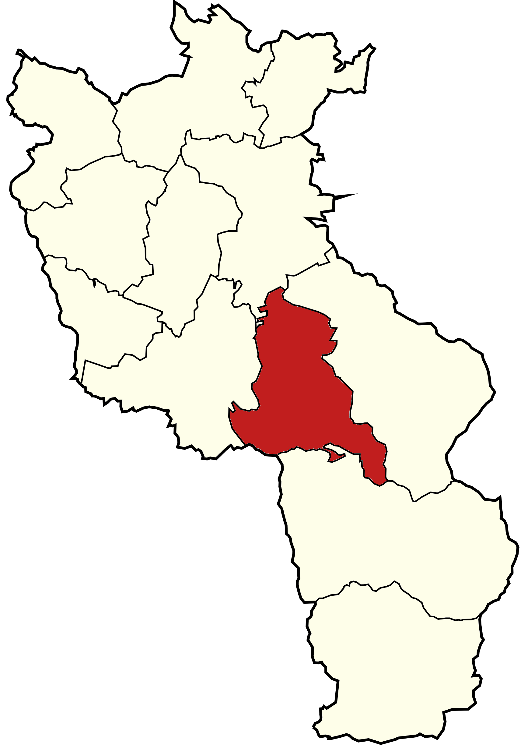 Ustroń on Cieszyn county map